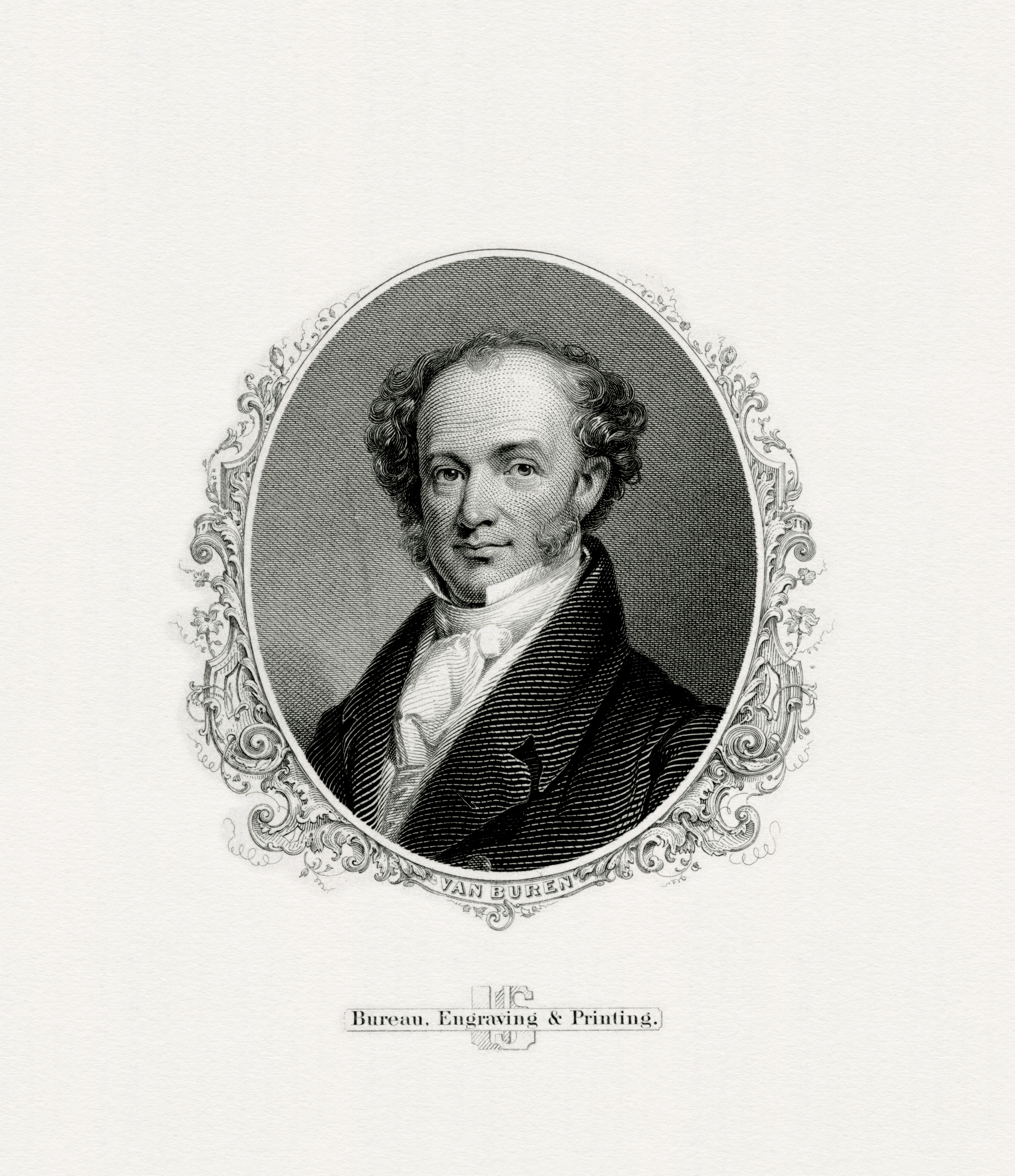 Engraved BEP portrait of U.S. President Martin Van Buren